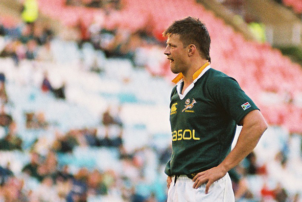 Springbok number 8 Bob Skinstad photographed at the South Africa versus Samoa rugby Test on Saturday, 9 June 2007, at Ellis Park, Johannesburg, South Africa. The Springboks beat Samoa 35–8. Picture taken with a Nikon F80 (35mm SLR).